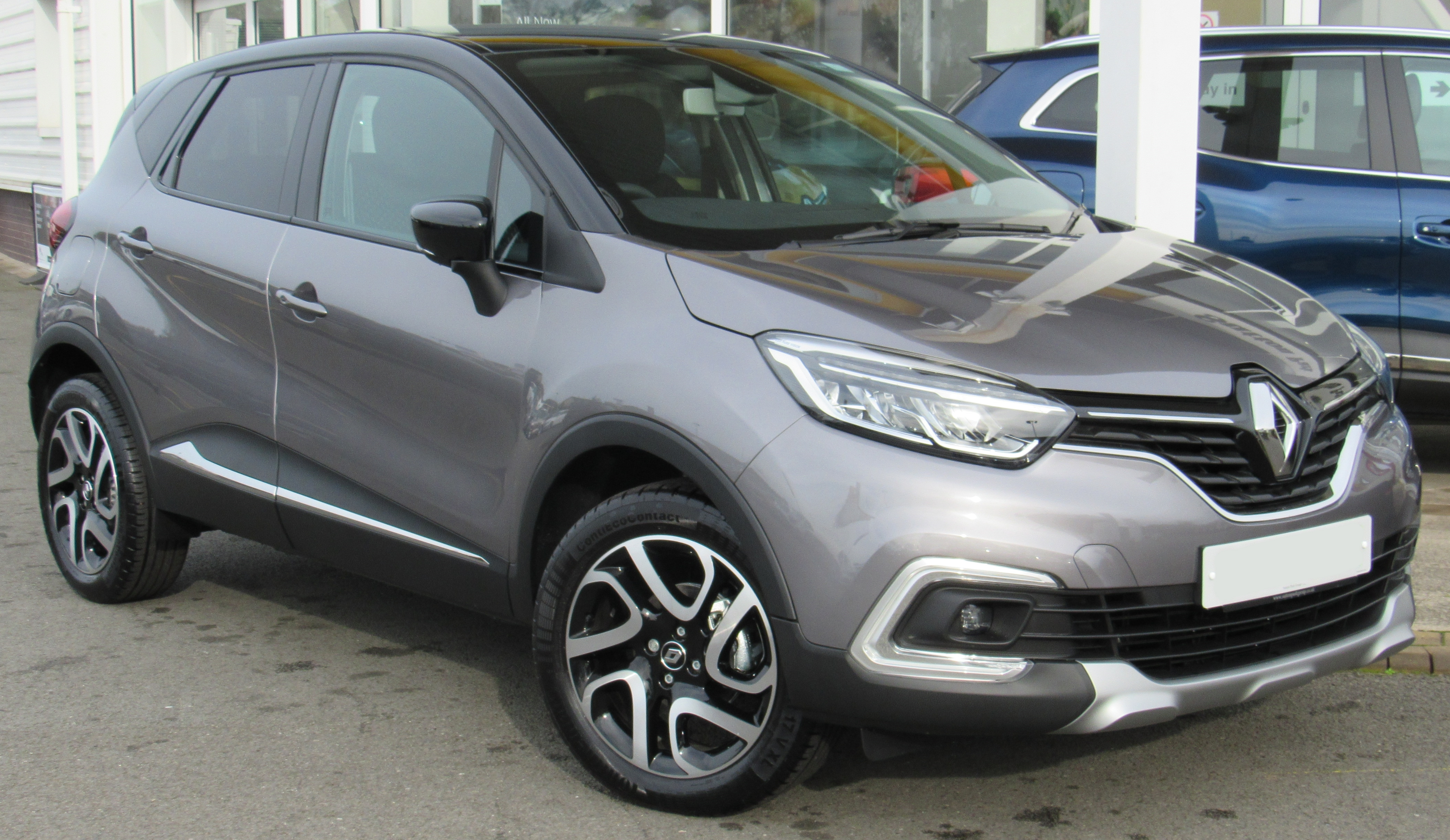 2017 Renault Captur 900cc Taken in Leamington Spa